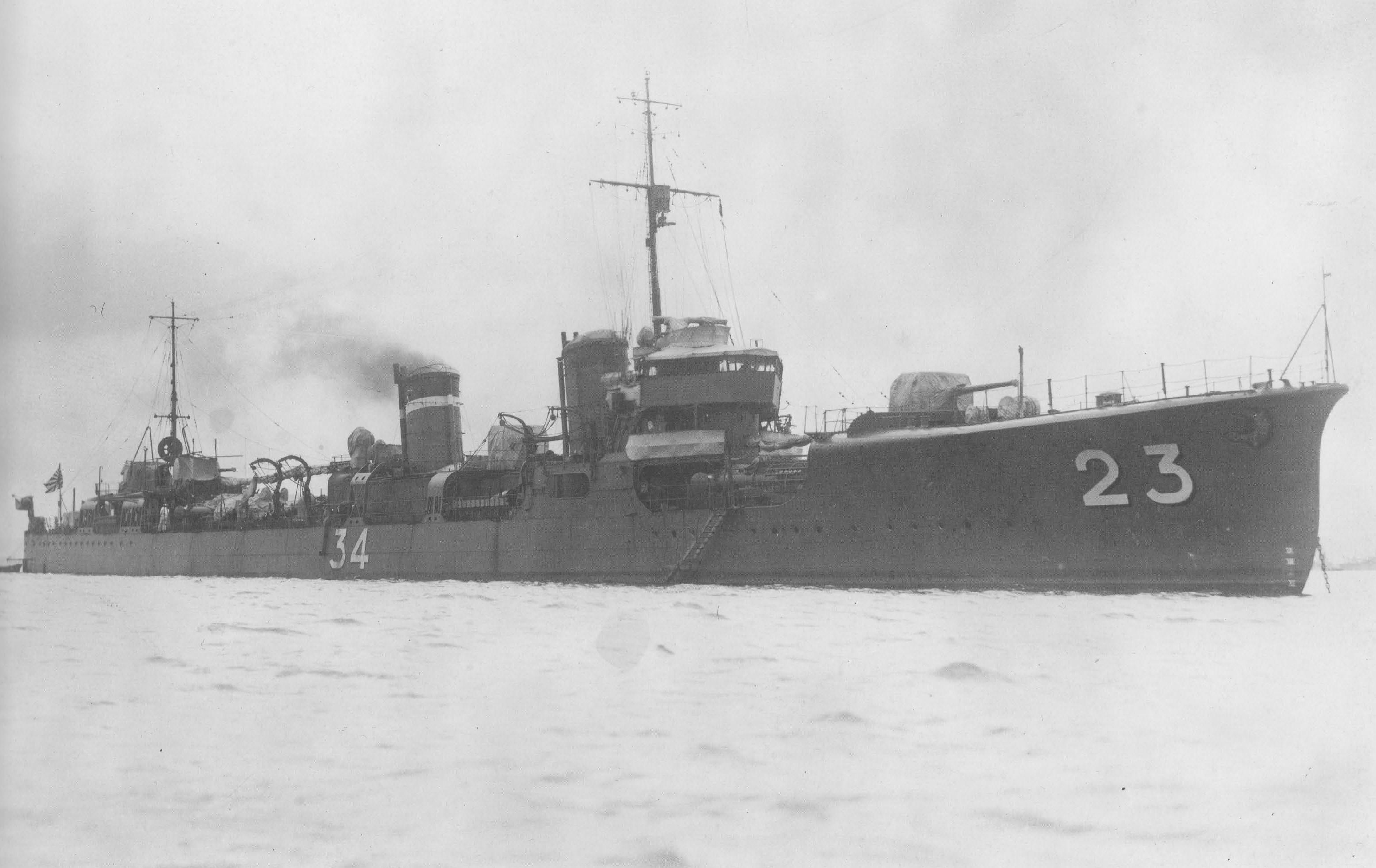 Imperial Japanese Navy destroyer Yuzuki.